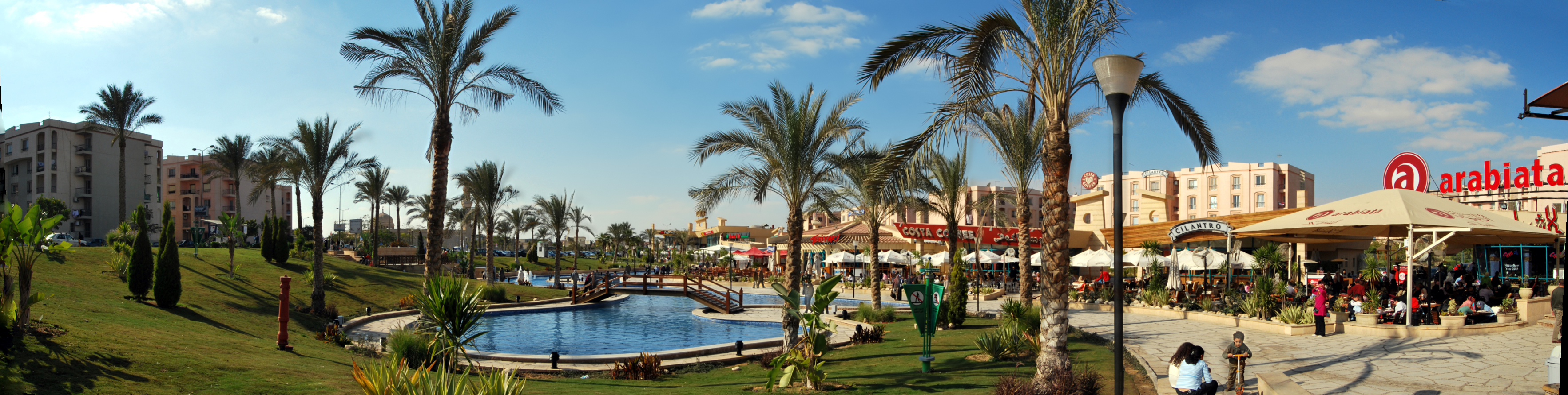 A Panorama of Food Court area in Rehab City.